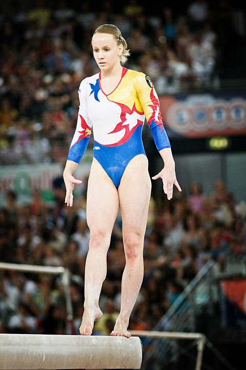 Sandra Izbasa (b. 1990) at the Mediterraneo Gym Cup July 5th 2008 in Rome